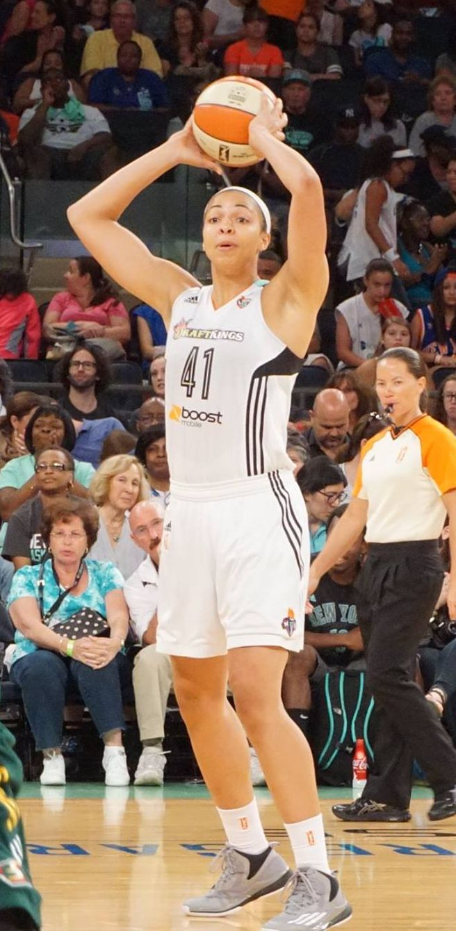 Kiah Stokes at 2 August 2015 game